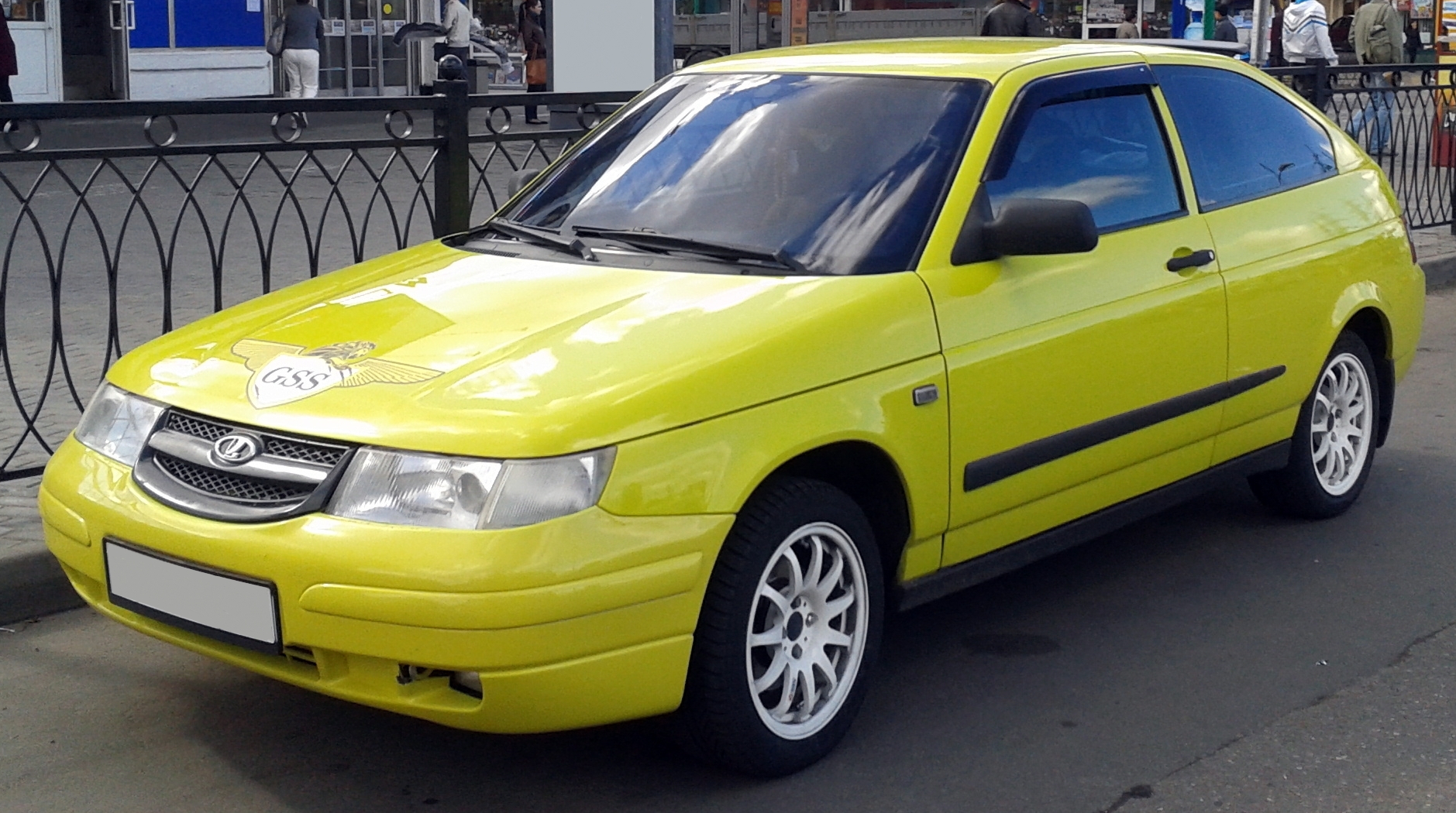 Lada 112 Coupe.